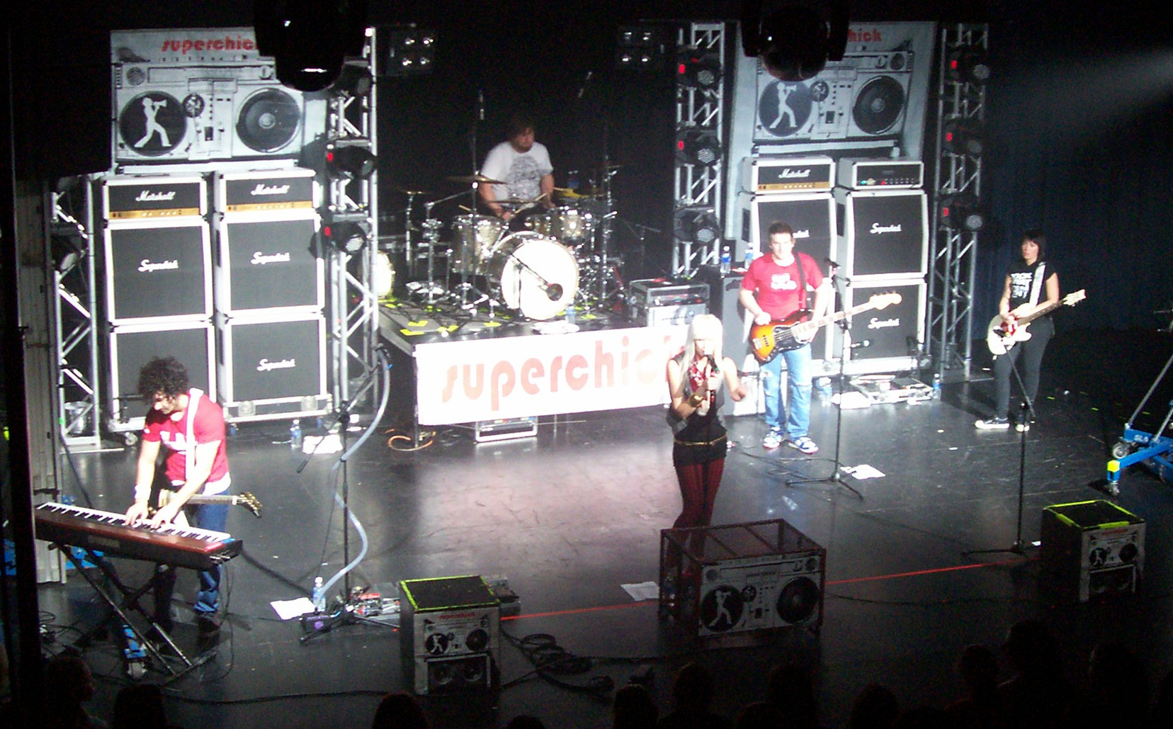 The Christian group Superchick performing at the Manitowoc Civic Center in 2009 on the opening night of their "Hey! Hey! (That's Freedom You Hear)" Tour.